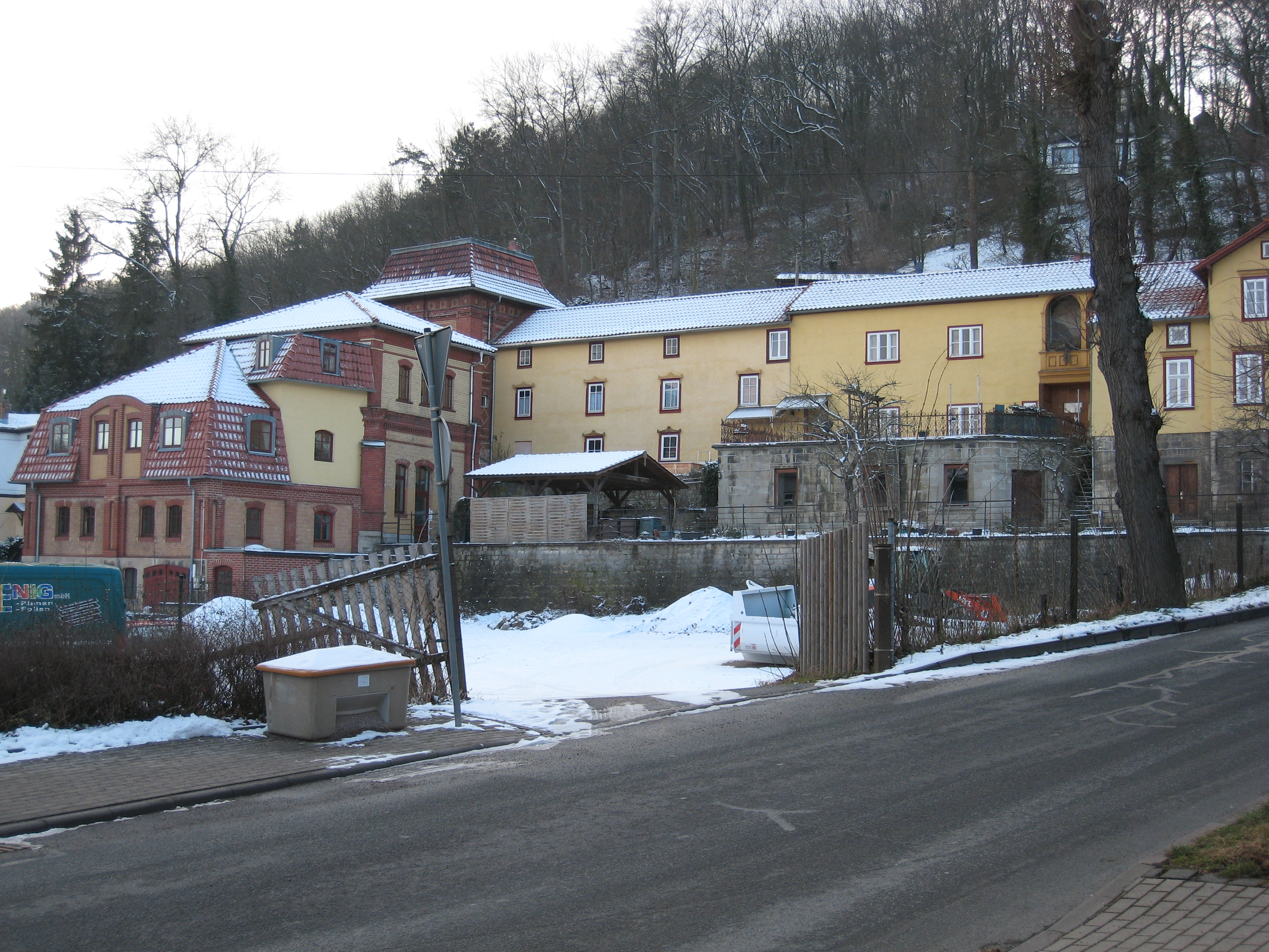 Winckler'sche Lackfabrik Arnstadt, Plauesche Straße/Marlittstraße, former factory and dwelling-house